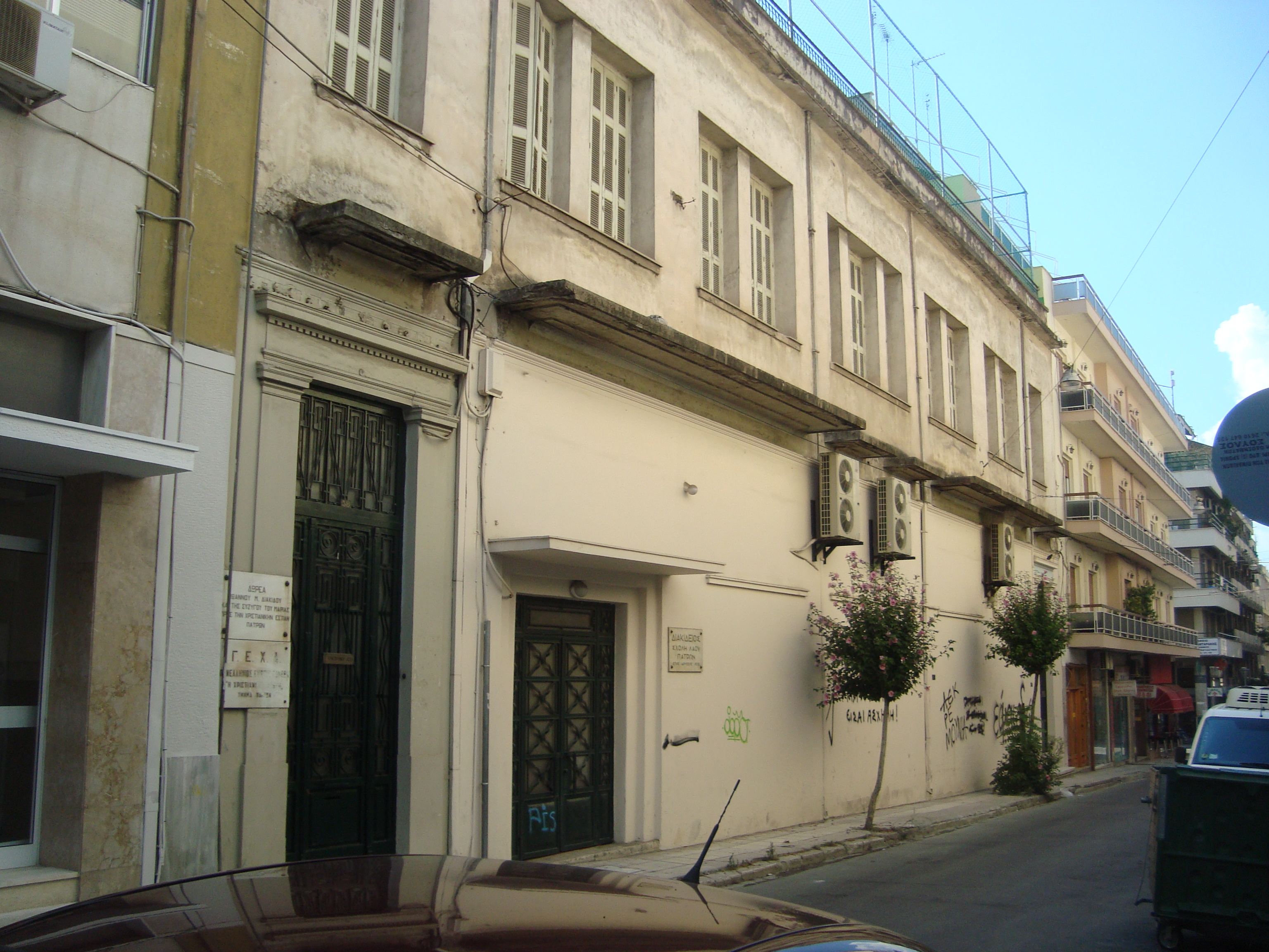 Diadikios Sxoli Laou Patras